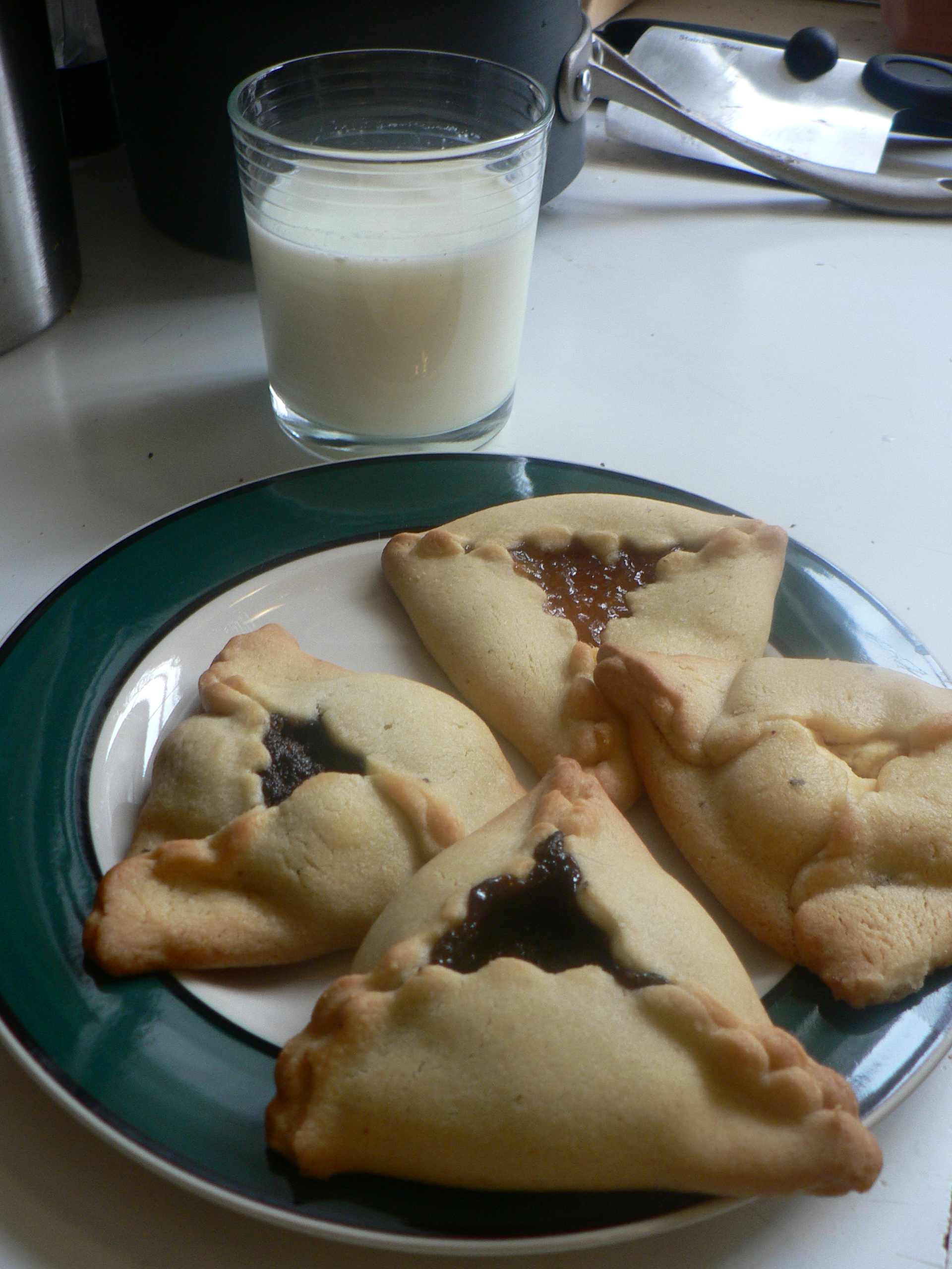 Hamantaschen with a glass of milk. Poppy seed filling on the left.